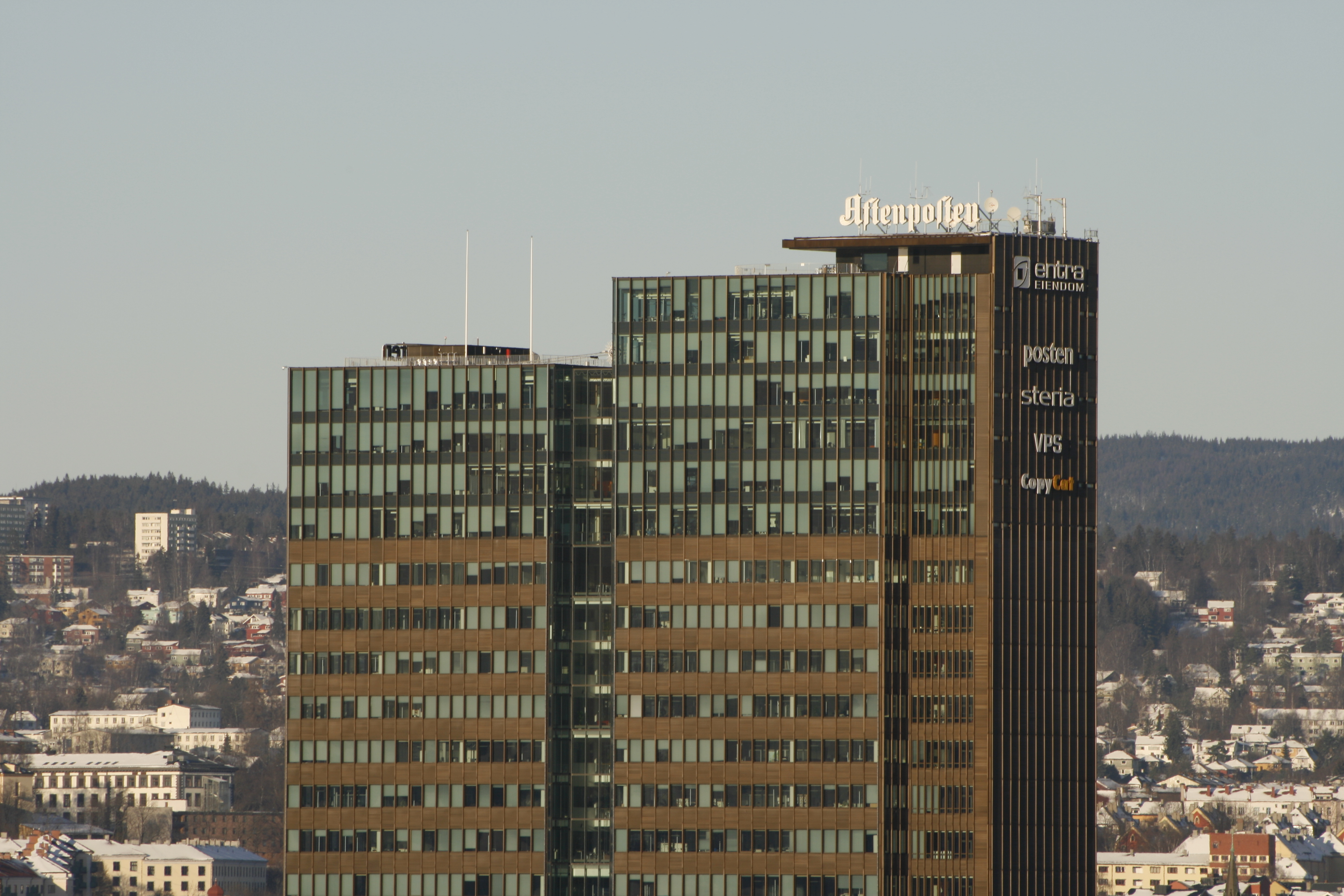 Postgirobygget, Oslo, Norway